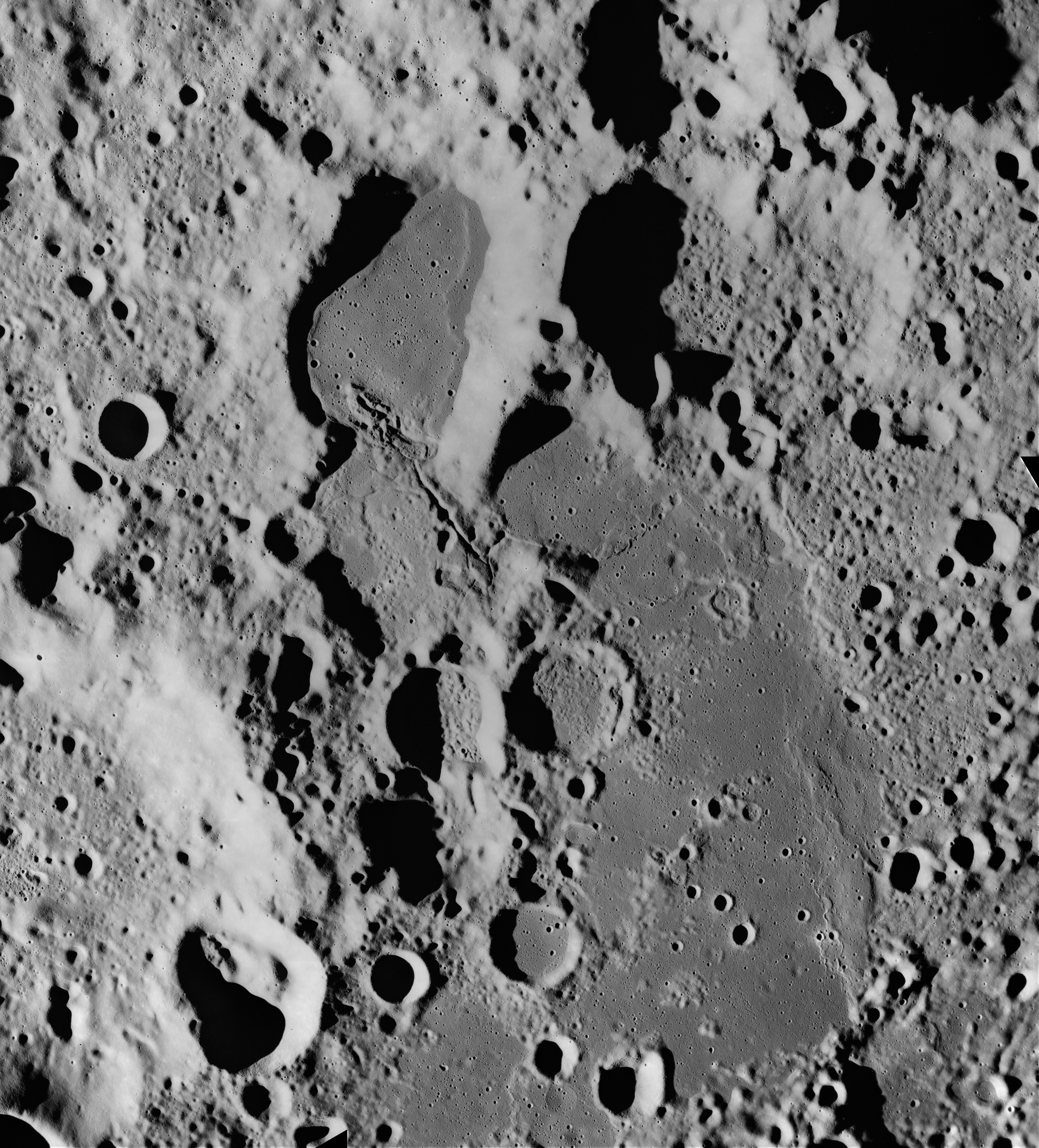 Lacus Solitudinis, on the far side of the moon. From Revolution 72 of Apollo 15, altitude 110 km, sun elevation 9 deg.